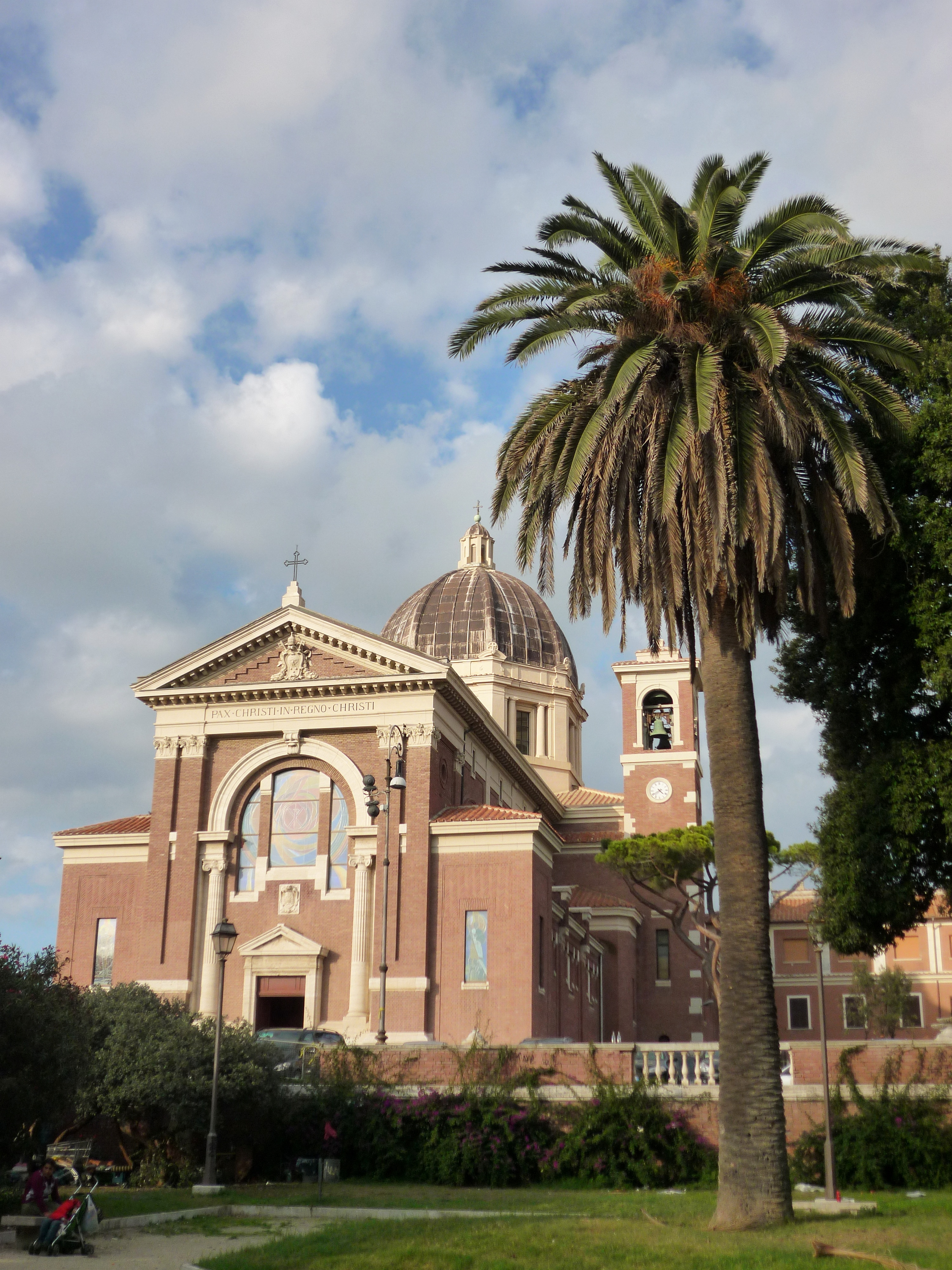 Church of Holy Mary Queen of Peace (Santa Maria Regina Pacis), Ostia, Italy